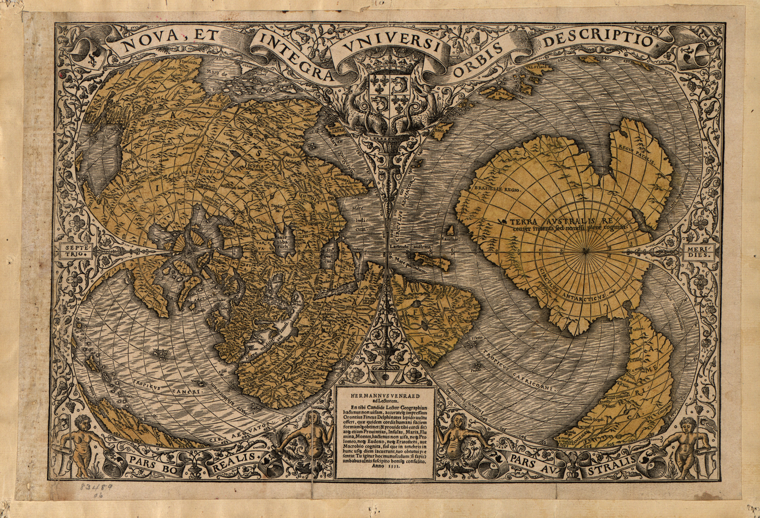 Oronce Fine (1494–1555), also known by his Latinized name of Orontius Finaeus Delphinatus, was born in Briançon, France and trained as a medical doctor at the University of Paris. He was appointed to the chair of mathematics at the Collège Royal in Paris in 1531 and, like many mathematicians of his day, applied his knowledge to cartography. In addition to mapmaking, Fine published a multivolume work on mathematics, astronomy, and astronomical instruments, and he was an expert on military fortifications. Fine’s Nova, et integra universi orbis descriptio of 1531 is the earliest known map on which the name Terra australis appears. Ancient geographers had speculated about the existence of a southern continent, and European explorers often assumed that newly discovered lands in the Southern hemisphere, such as Tierra del Fuego and New Zealand, were extensions of this continent. The existence of Antarctica was not definitively proven until the 19th century. Fine’s Terra australis bears a certain resemblance to Antarctica, but it is unlikely that he had any knowledge of the continent beyond the speculations of the ancient and Renaissance geographers.